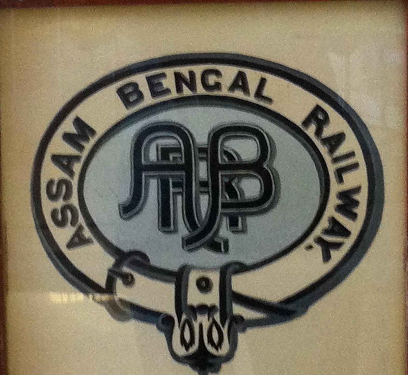 Logo of the Assam Bengal Railway